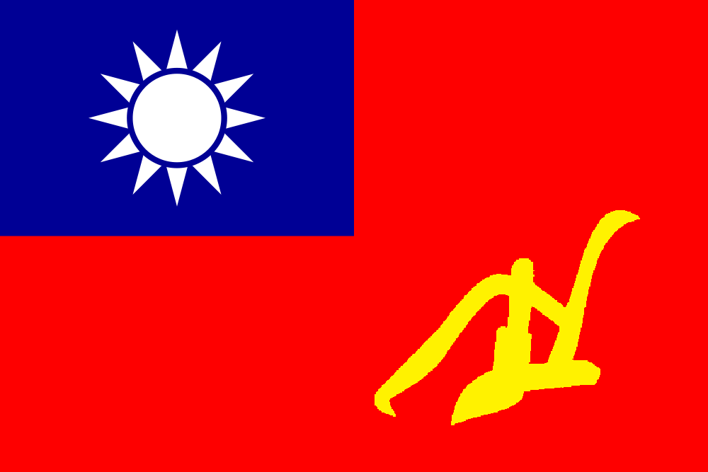 In May 1925, a peasants' congress was held in Canton in order to organize Kwangtung Peasants' Association. At that Congress the flag of Association was made by adding a plow on the flag of the Republic of China.